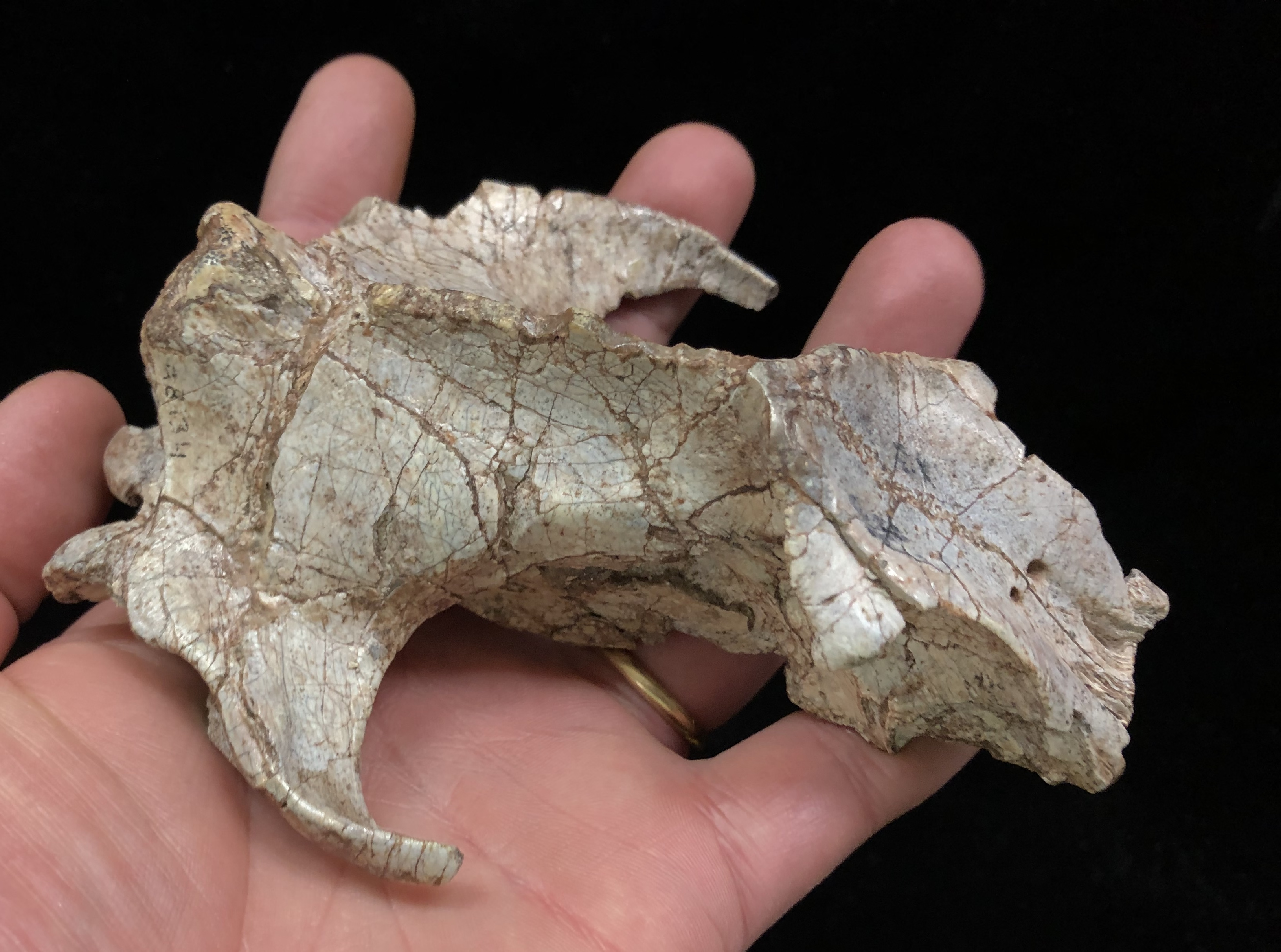 Braincase and eye region of the skull of the fossil cetacean Ichthyolestes pinfoldi (HGSP 98134)